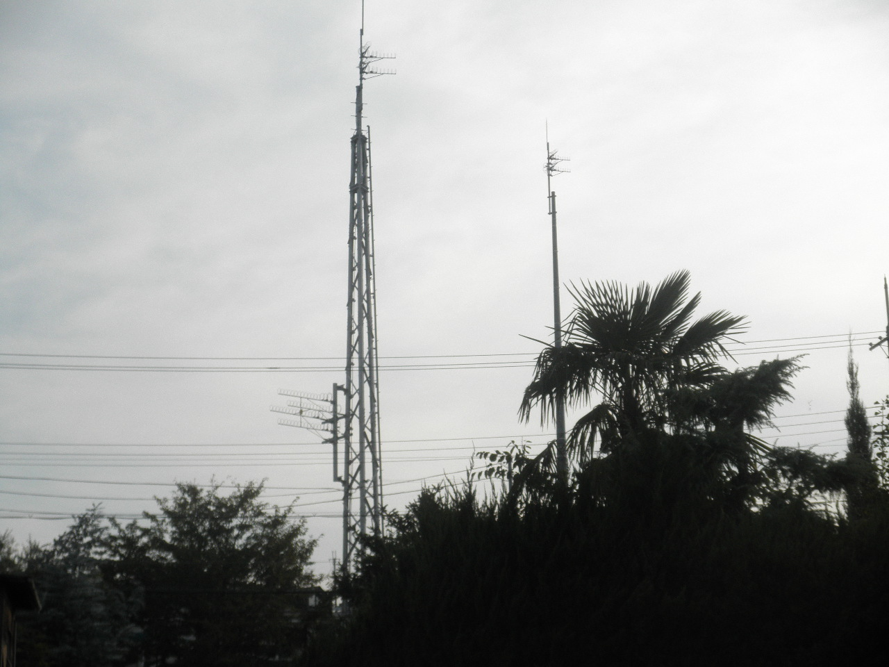 Mikishijimi A Telephone exchange